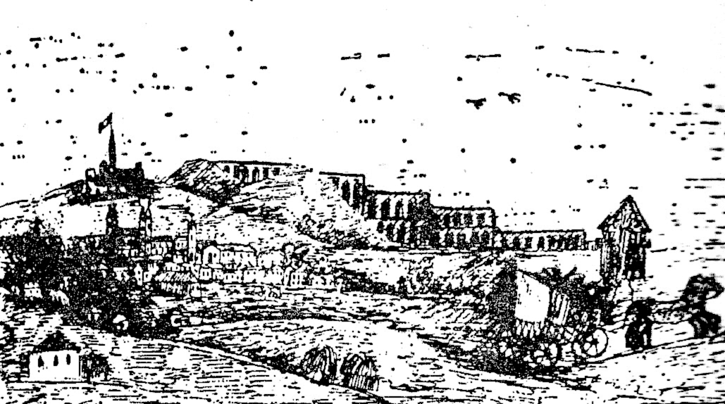 Veisa, Vasile Pogor and other young Moldavian boyars taking the stagecoach ride to Kraków, on their way to becoming students in Paris. The city in the background is Iaşi, Moldavia's last capital city. Details concerning Veisa's drawing, and an account of the journey, in Călinescu, page 437.